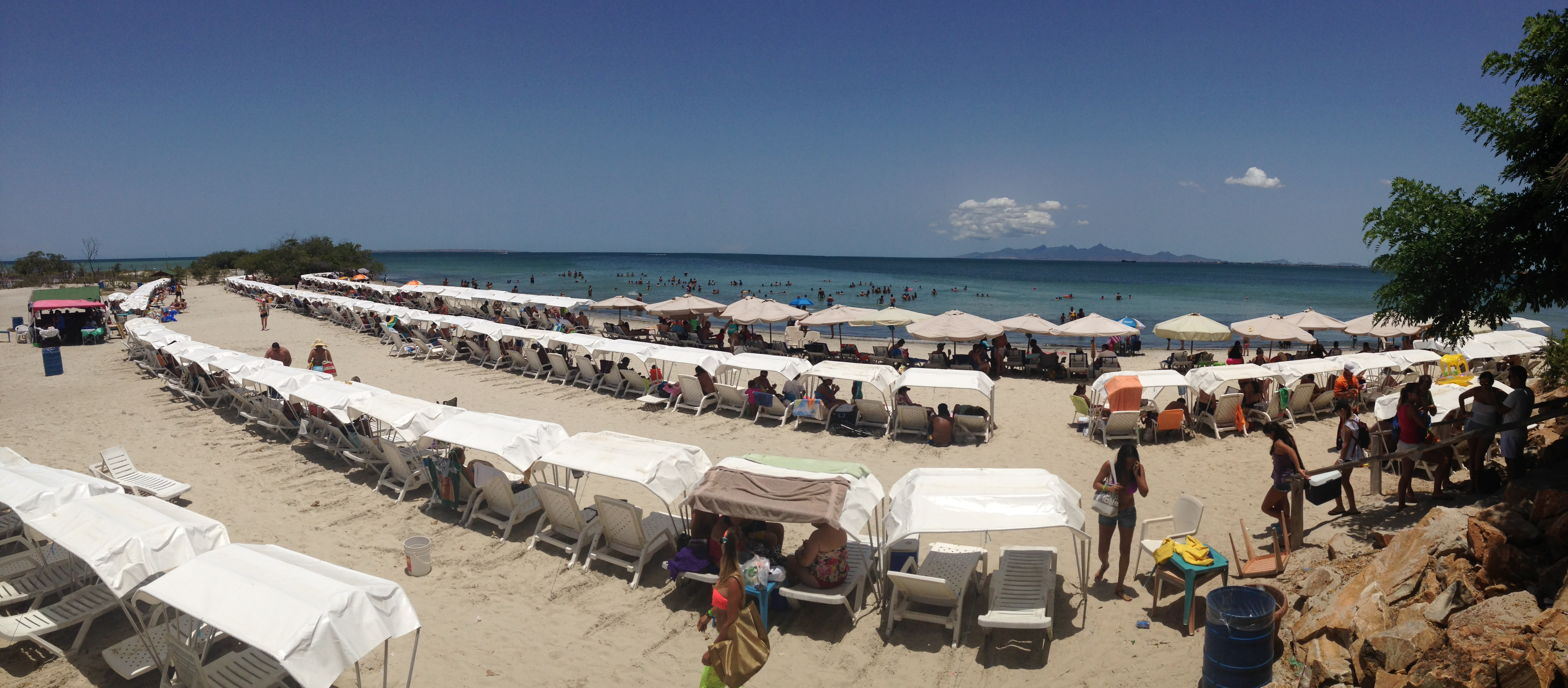 margarita, edo nueva esparta